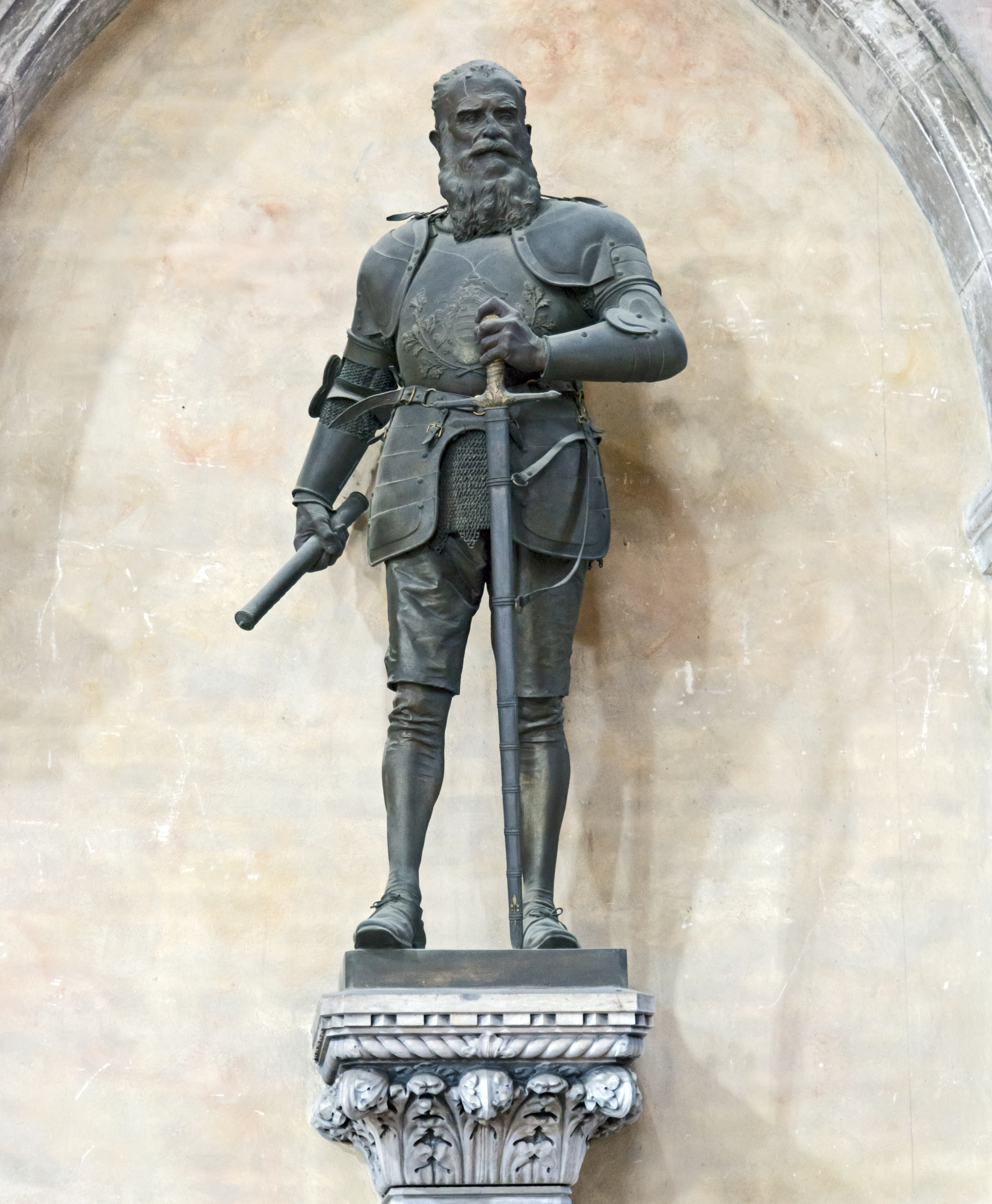 Left transept of Santi Giovanni e Paolo in Venice, monument of the Doge Sebastiano Venier by Pietro Lombardo and Antonio Dal Zotto.